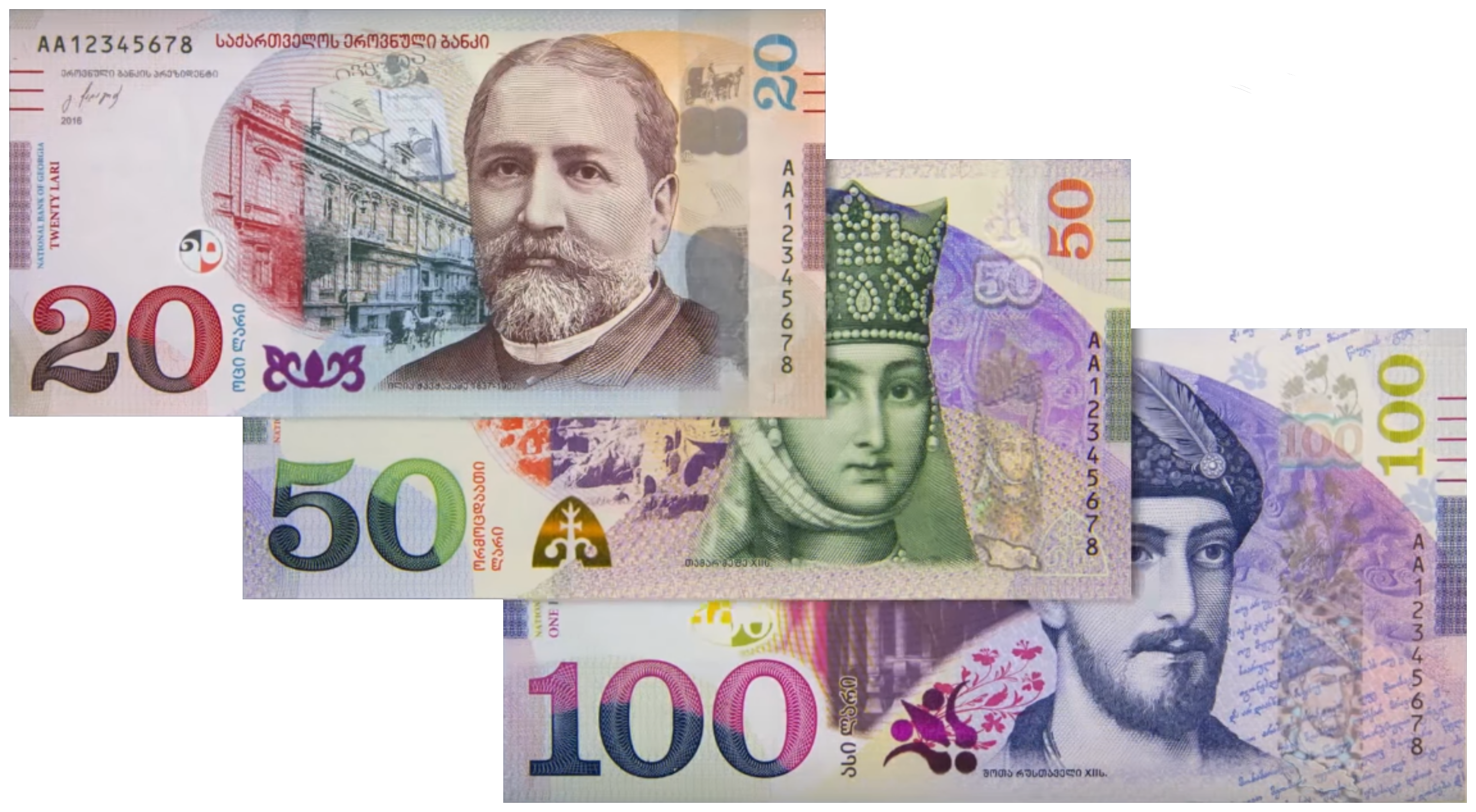 Georgian 20, 50 and 100 lari.